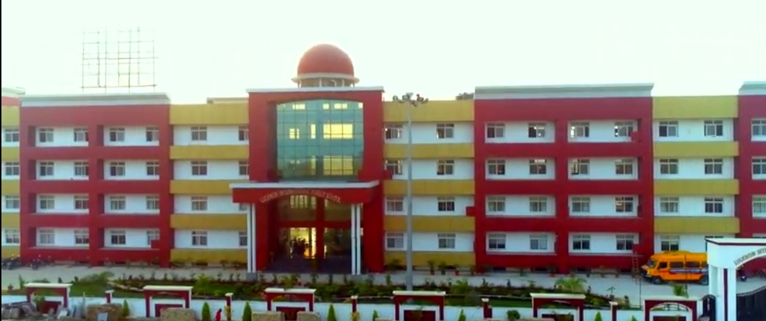 A great school which is not in limelight